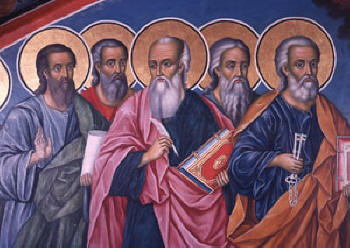 Synaxis of the Twelve Apostles Dimitar Molerov Rila Monastery